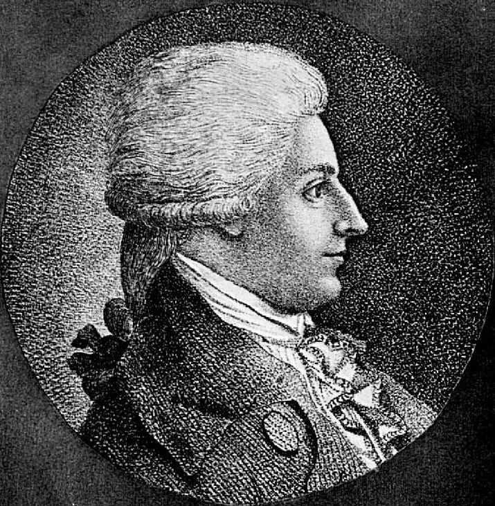 Depicted person: Jeremias David Reuß, invalid ID, invalid ID, invalid ID, invalid ID, invalid ID, invalid ID, invalid ID, invalid ID and invalid ID